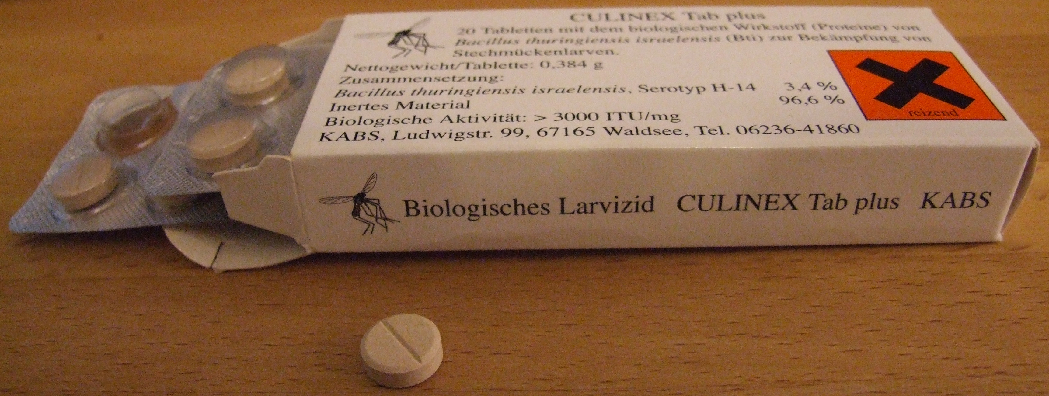 Larvicide